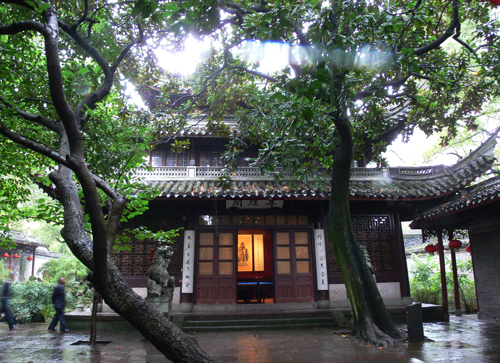 Junjing Chamber at Tian Yi Ge, Ningbo